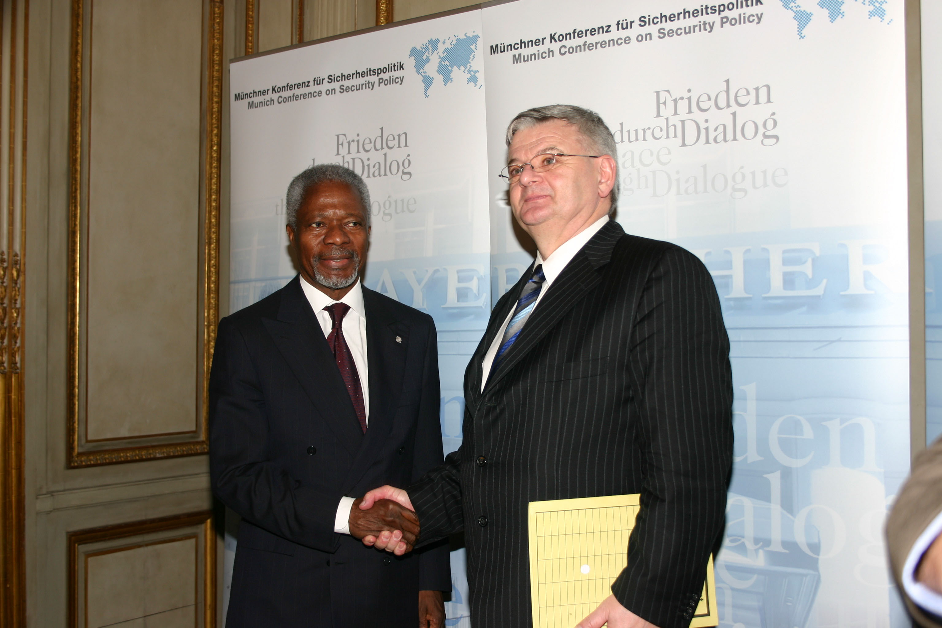 41st Munich Security Conference 2005: General Secretary of the United Nations, Kofi A. Annan(left) and the German Federal Minister of Foreign Affairs, Joschka Fischer.